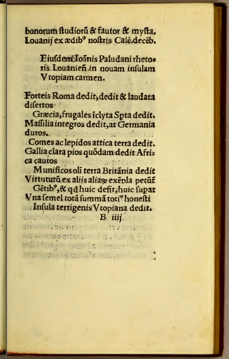 On this page, we can see on top the last two sentences of J. Desmarais letter to P. Gilles ; then follows the poem written by J. Desmarais (John Paludanus), as it was printed in Thomas More's Utopia 1517 edition (Gilles de Gourmont, Paris)